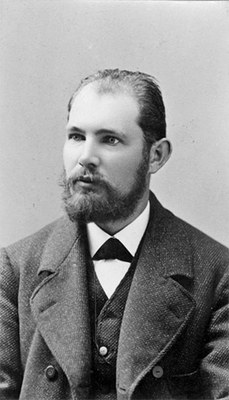 photograph of Aurel Krause, German naturalist and ethnologist, 1848-12-30 – 1908-03-14